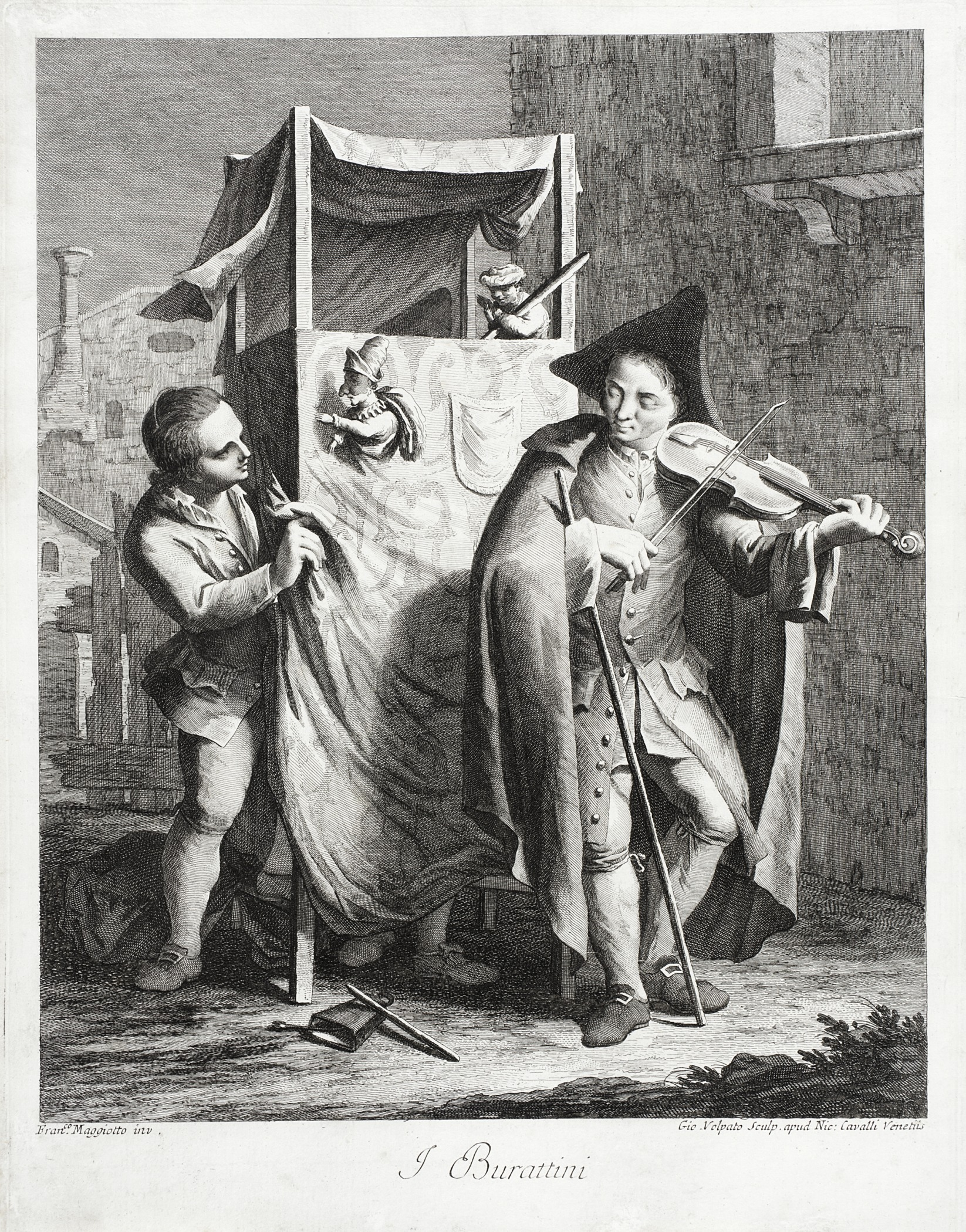 Italy, circa 1764 Alternate Title: I Burattini Series: Le 'Arti per Via' Prints; engravings Etching 15 x 11 1/2 in. (38.1 x 29.21 cm) Gift of Joseph B. Koepfli (M.74.75) Prints and Drawings